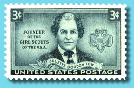 US stamp honoring Juliette Low